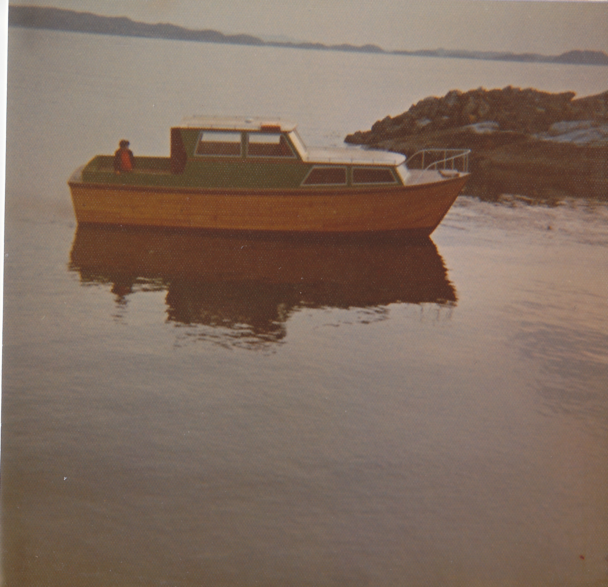 Platgatter Kjølingen